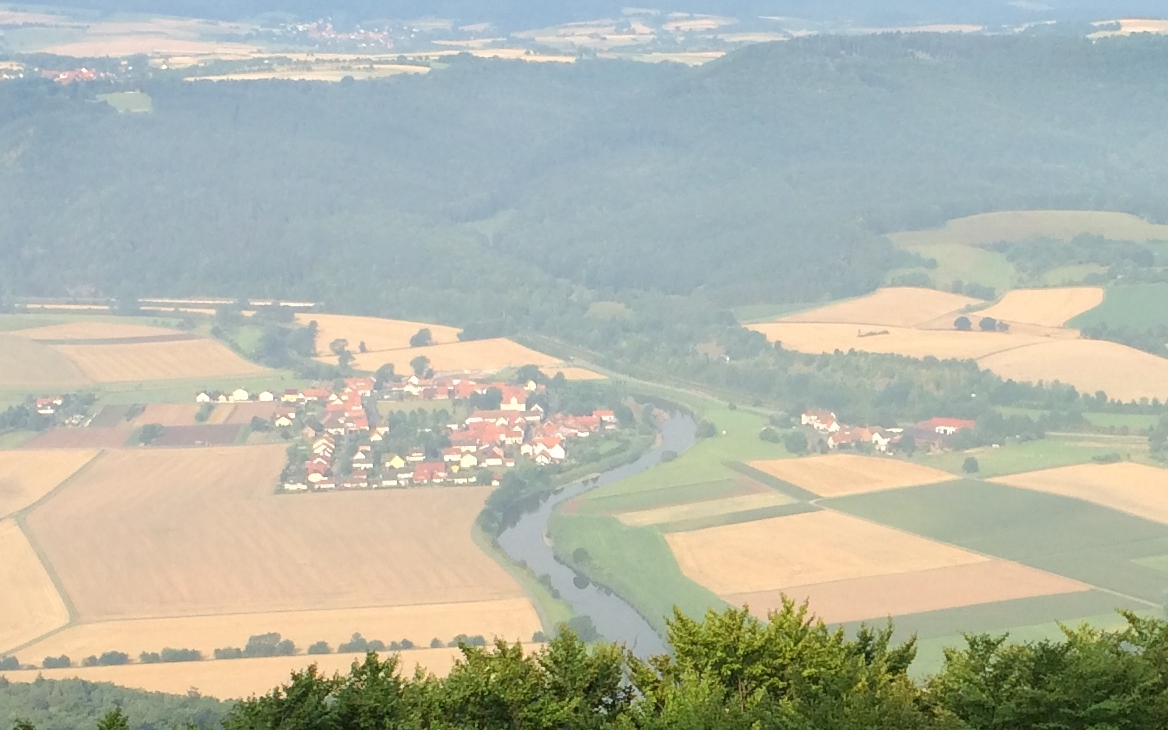 Bildausschnitt: Blick von der Hörne auf Kleinvach (li) und Weiden (re) im Werratal